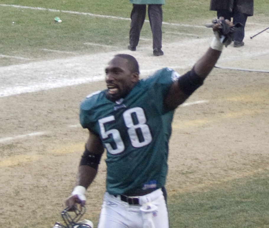 Ike Reese after the Eagles 27-14 victory over the Minnesota Vikings on Jan 16, 2005